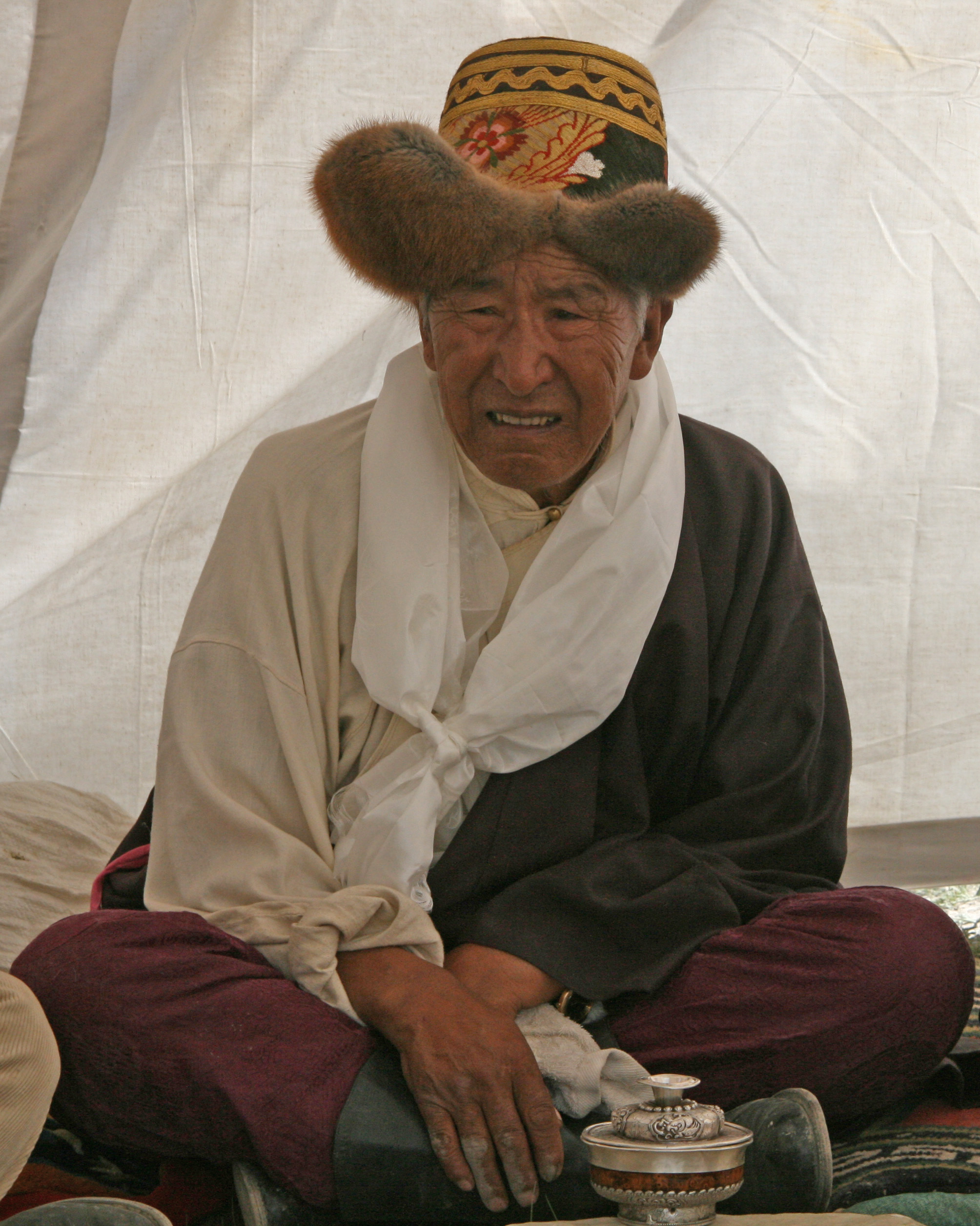 Lopa's at Yartung Festival